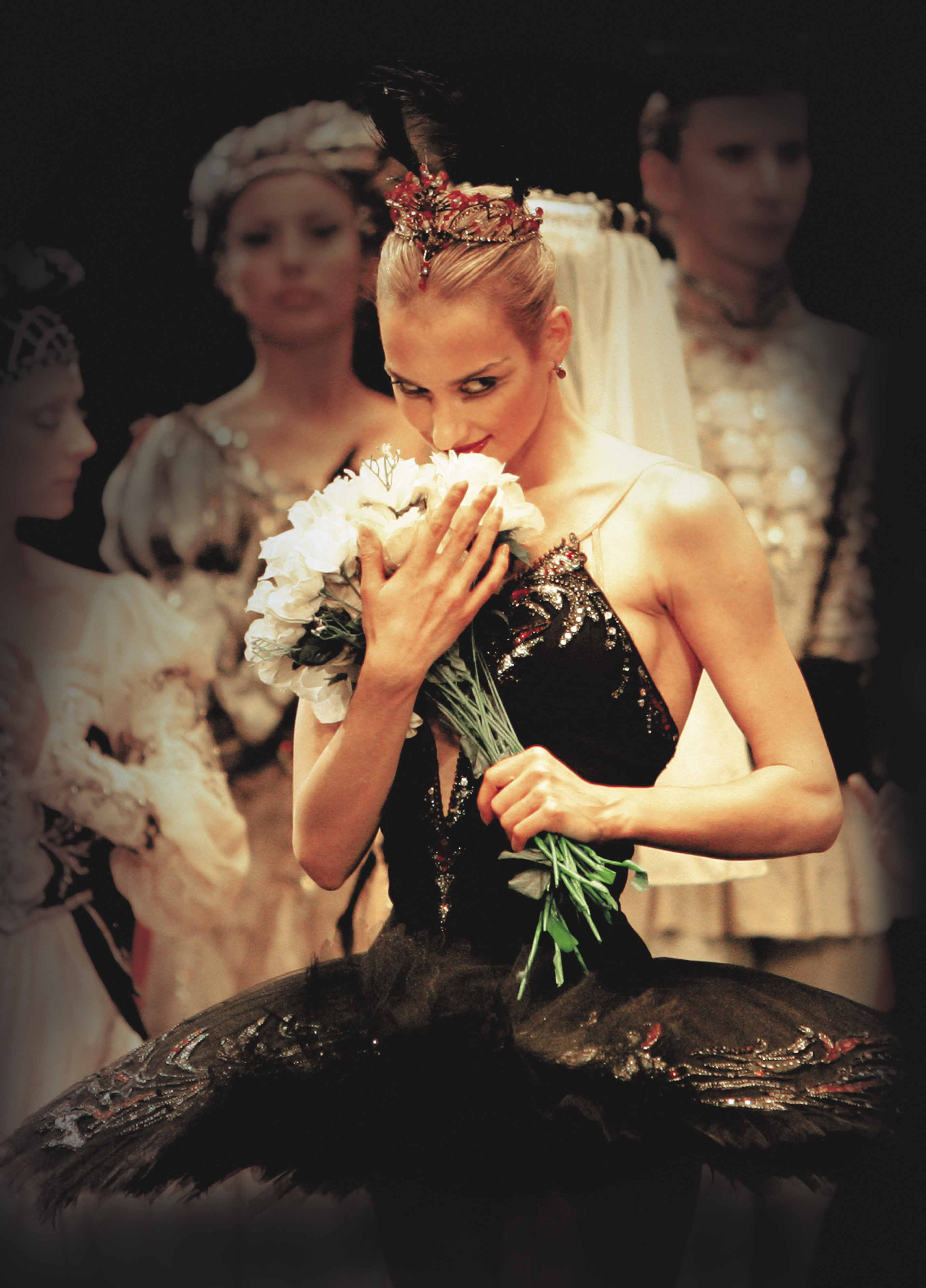 Irina Kolesnikova, Swan Lake